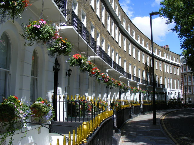 Houses in Cartwright Gardens Cartwright Gardens was originally named Burton Crescent but was renamed to honour an early resident, John Cartwright (1740-1824 and resident 1820-24).